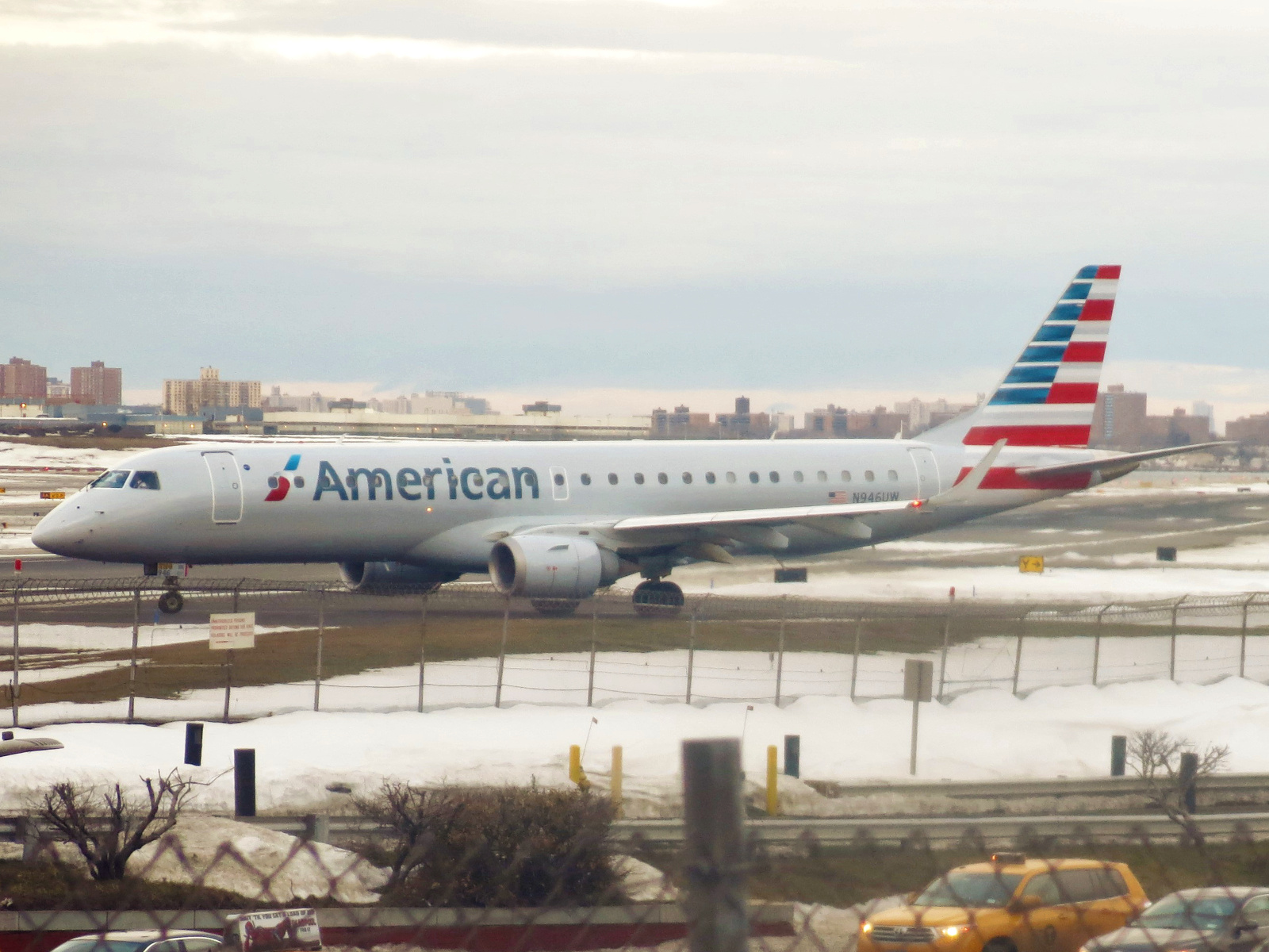 An American Airlines Embraer E-Jet is taxiing into the takeoff position at LaGuardia Airport.